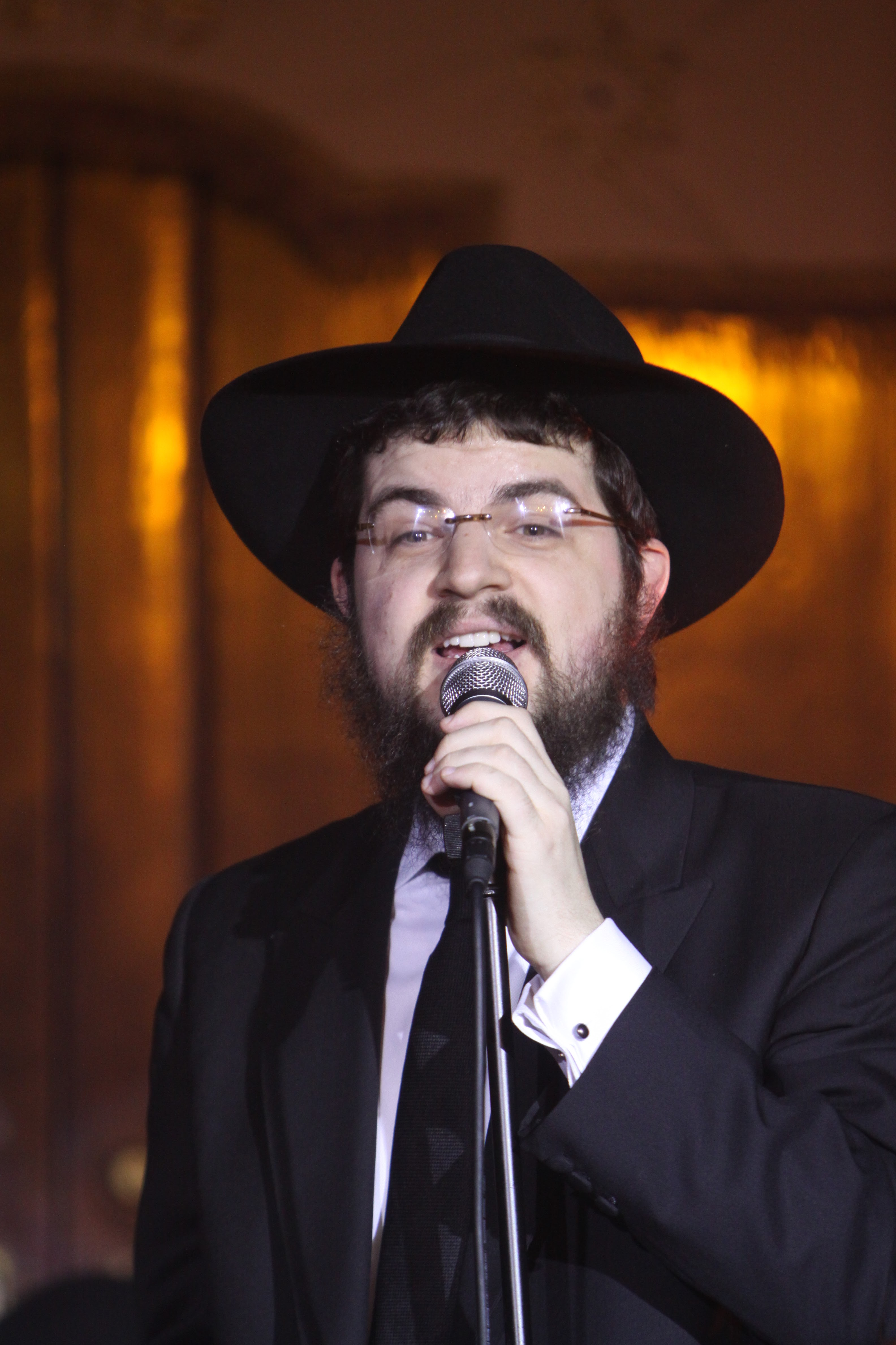 Benny Friedman 2010